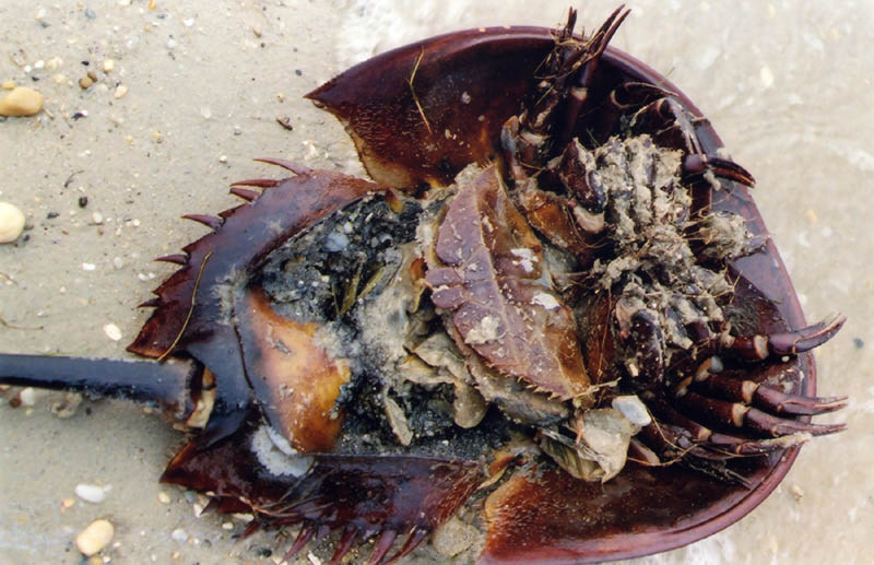 Dead female horseshoe crab. Location: Patuxent River, Maryland